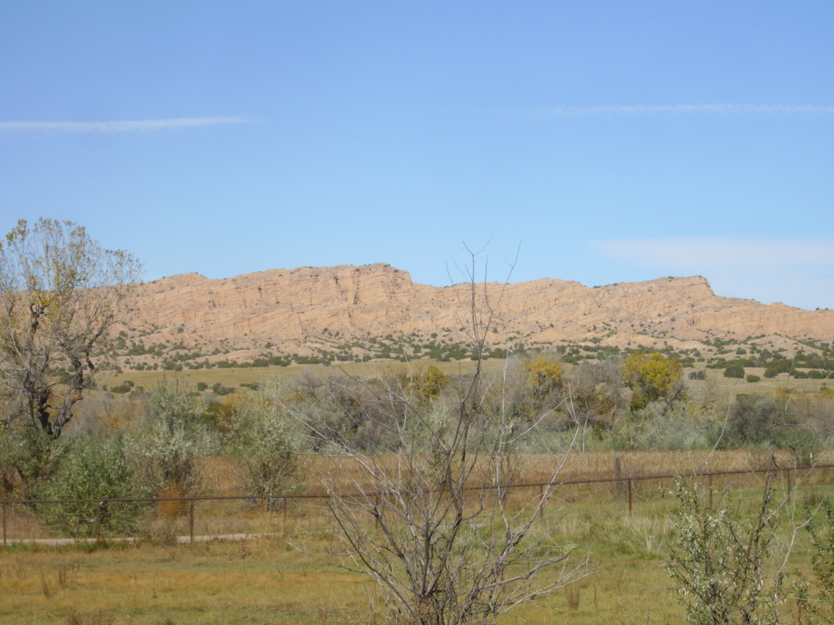 This is Los Barrancos, a badlands north of Santa Fe, New Mexico, where the Tesuque Formation of the Santa Fe Group is exposed.